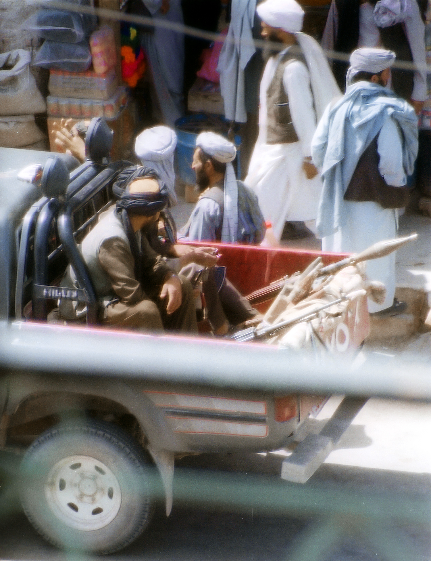 Taliban in Herat.